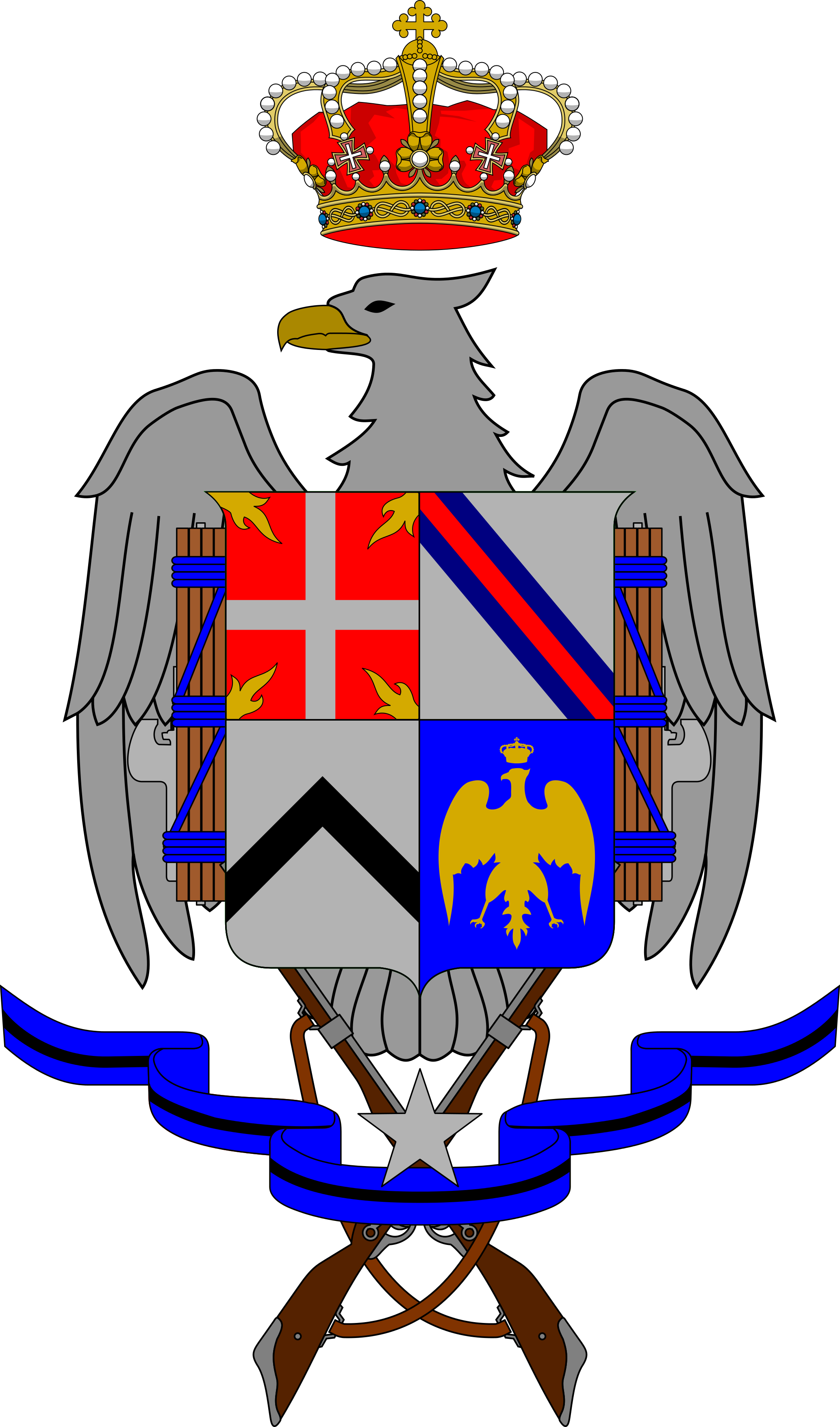 Coat of Arms of the 88th Infantry Regiment "Friuli", Royal Italian Army, 1939 - Royal Crown by user User: F l a n k e r, released to public domain (see File:Crown of Savoy.svg)